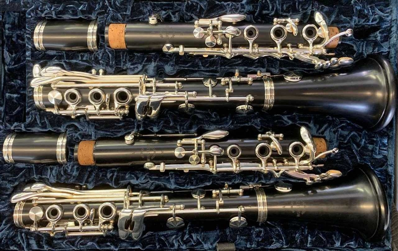 Reform Boehm clarinets by Herbert Wurlitzer, a set consisting of Bb and A clarinet in a case